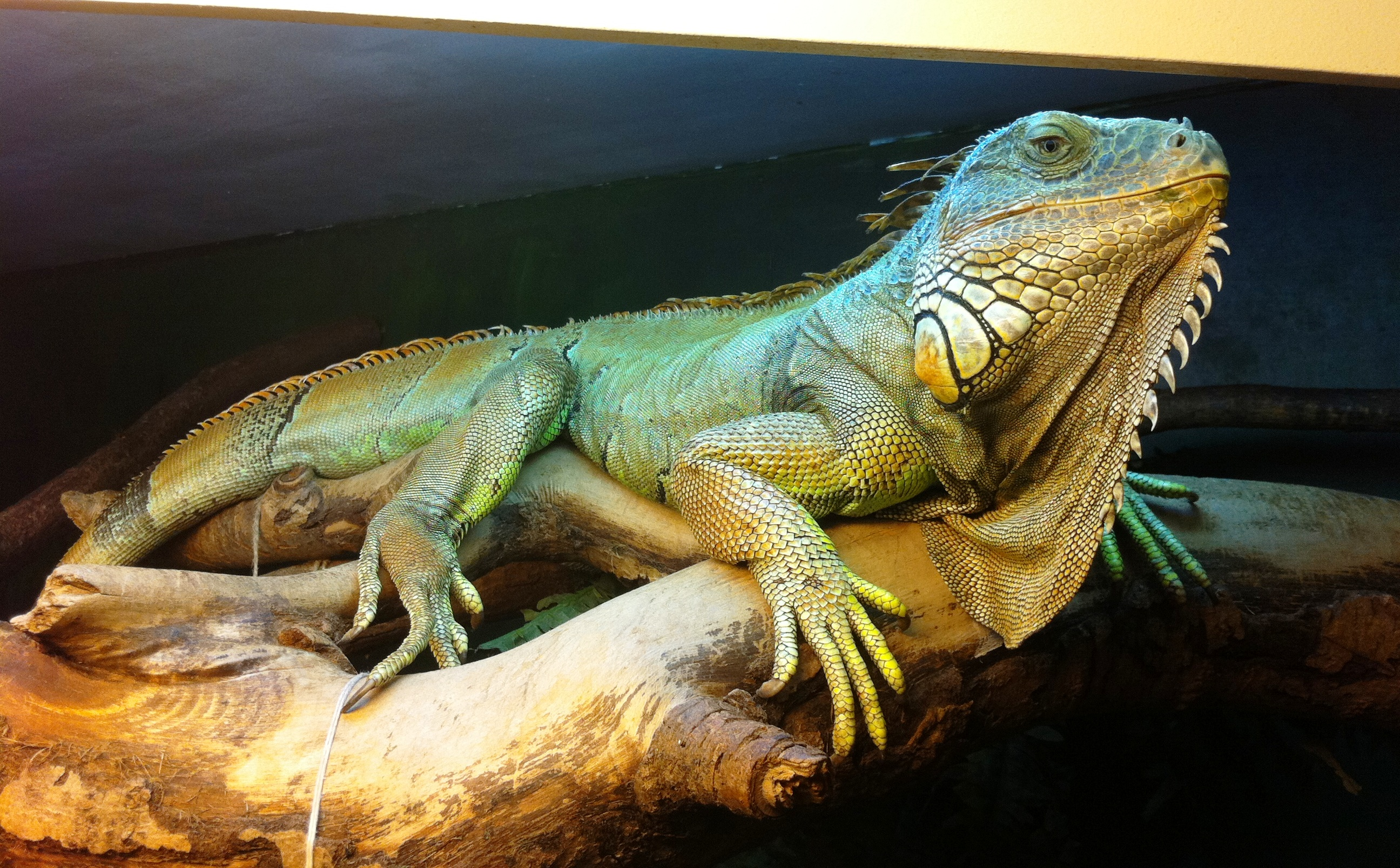 Green iguana at Oslo Reptilpark